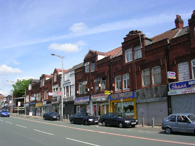 Cheetham Hill Road, Cheetham Hill, Manchester. A busy, multi-cultural area to the north of Manchester city centre. These buildings date from 1898. SD840013.